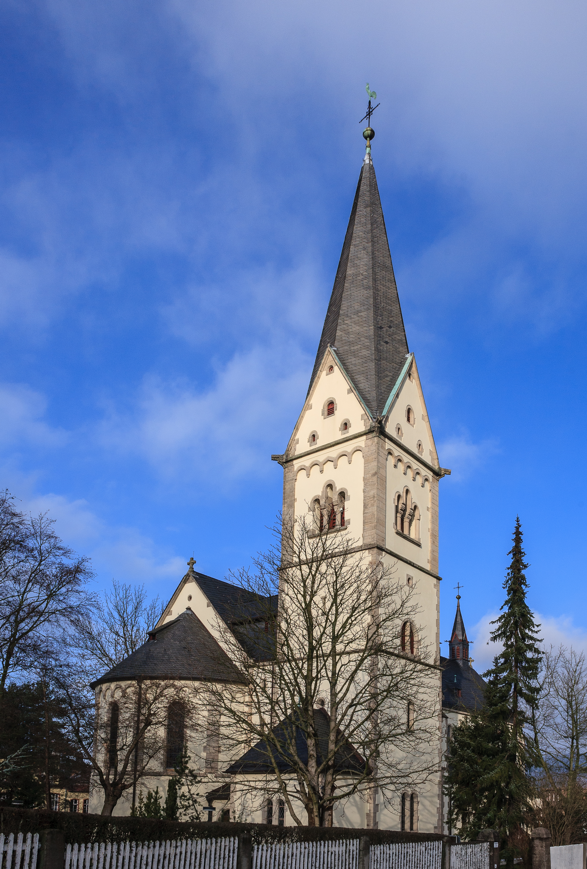 Roman-catholic church in the city of Eschwege, Hesse, Germany, Europe. Inauguration took place 1905.